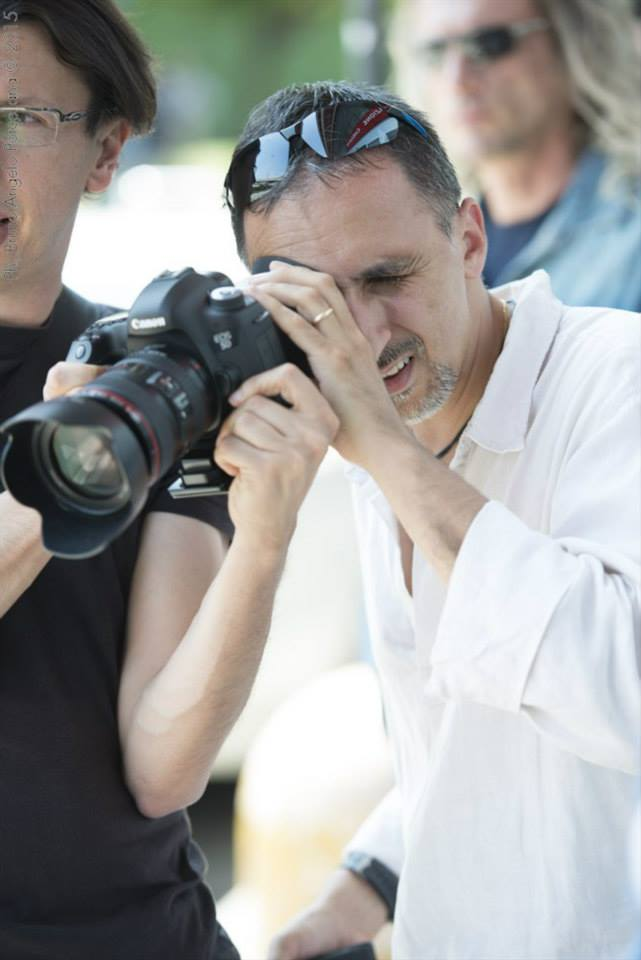 Gabriele De Pasquale